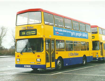 City Rider bus (reg. N162 VVO), a 1995 Scania N113DRB double-decker with East Lancs E Type bodywork, pictured laying over while on school duties. City Rider was formerly Derby City Transport, and this bus was new to them as their fleet no. 162.